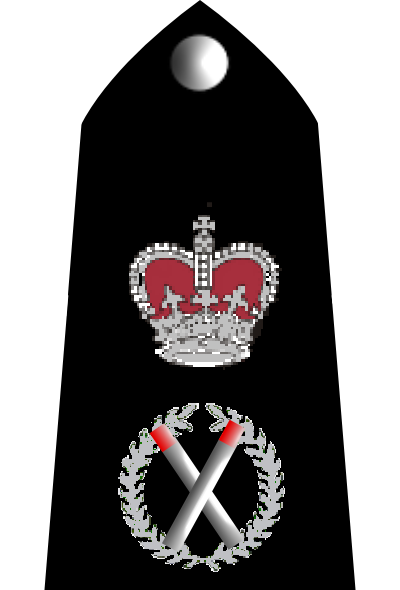 UK Police Chief Constable rank markings